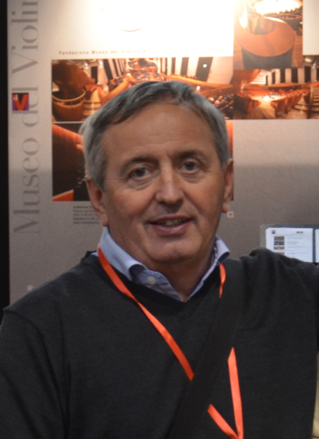 Giorgio Scolari